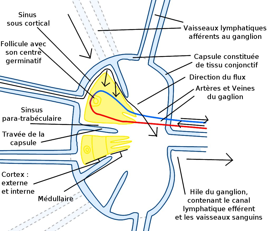 drawing of a lymphatic node (mail me at to get the original) / schéma d'un ganglion lymphatique